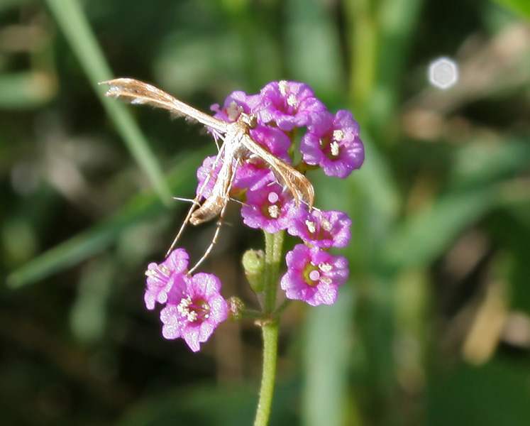 Plume moth from family Pterophoridae on Boerhavia diffusa- Spreading Hogweed, Punarnava, Red spiderling- in Hyderabad, India.